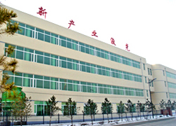 CNI laser (长春新产业光电技术有限公司) is founded in 1996,China.It is a professional laser manufacture and exporter.Its DPSS laser and laser pointers are exporting to all of the world. This picture is CNI's official building.